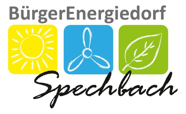 Logo BürgerEnergiedorf Spechbach